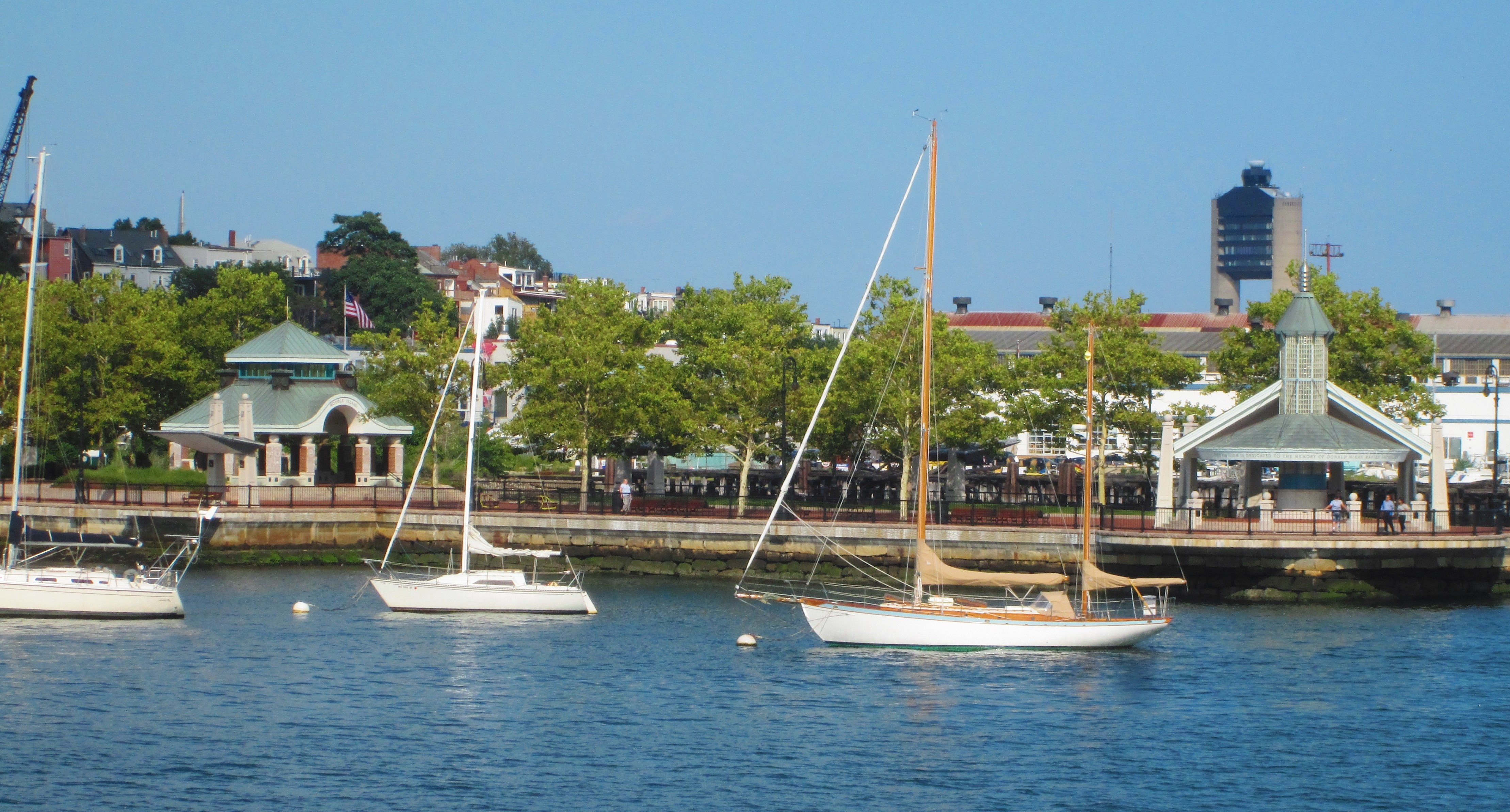 The Piers Park Sailing Center is a non-profit community sailing organization located at 95 Marginal Street in the Jeffries Point neighborhood of East Boston, Massachusetts. Piers Park was constructed by the Massachusetts Port Authority in 1995 to allow residents access to the waterfront. It was designed by Pressley Associates Landscape Architects, incorporating historic seawalls dating from 1870, and the sailing center was constructed shortly thereafter, but its sailing programs did not begin until 1997. The sailing center utilizes Boston Harbor and offers programs for a variety of ages and skill levels. The center retains the property through an extended $1 lease from MassPort, who also donated the sailing center's fleet of ten 23-foot Sonar keelboats.